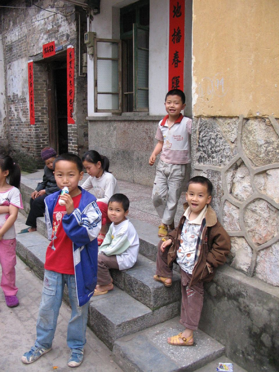 Guilin, China